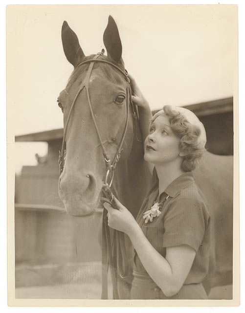 Format:Silver gelatin photograph Notes: One of the first American women to star in an Australian film From the collections of the Mitchell Library, State Library of New South Wales Information about photographic collections of the State Library of New South Wales: .au/search/SimpleSearch.aspx Persistent url: .au/album/albumView.aspx?acmsID=153778&